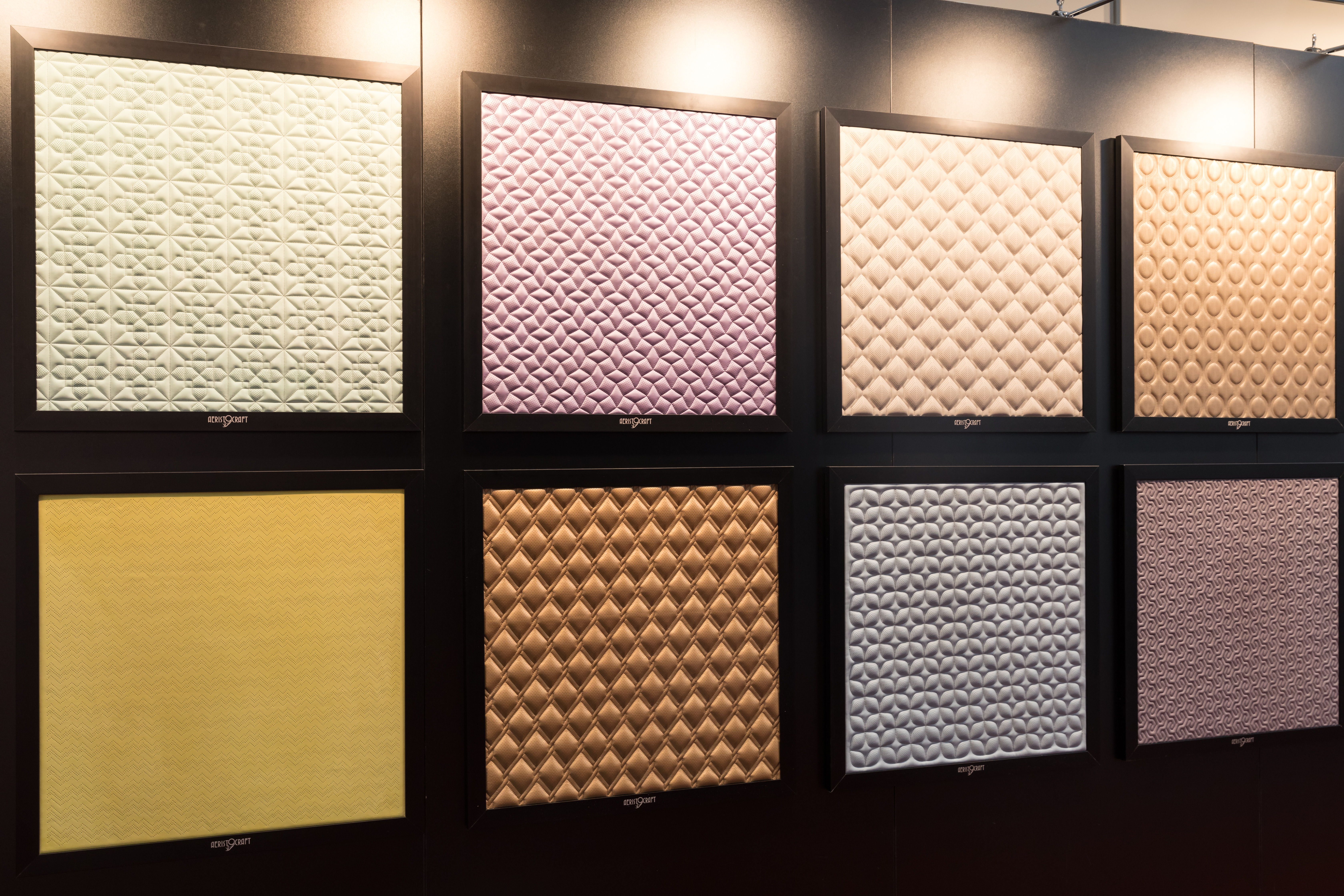 Passenger Experience Week 2018, Hamburg